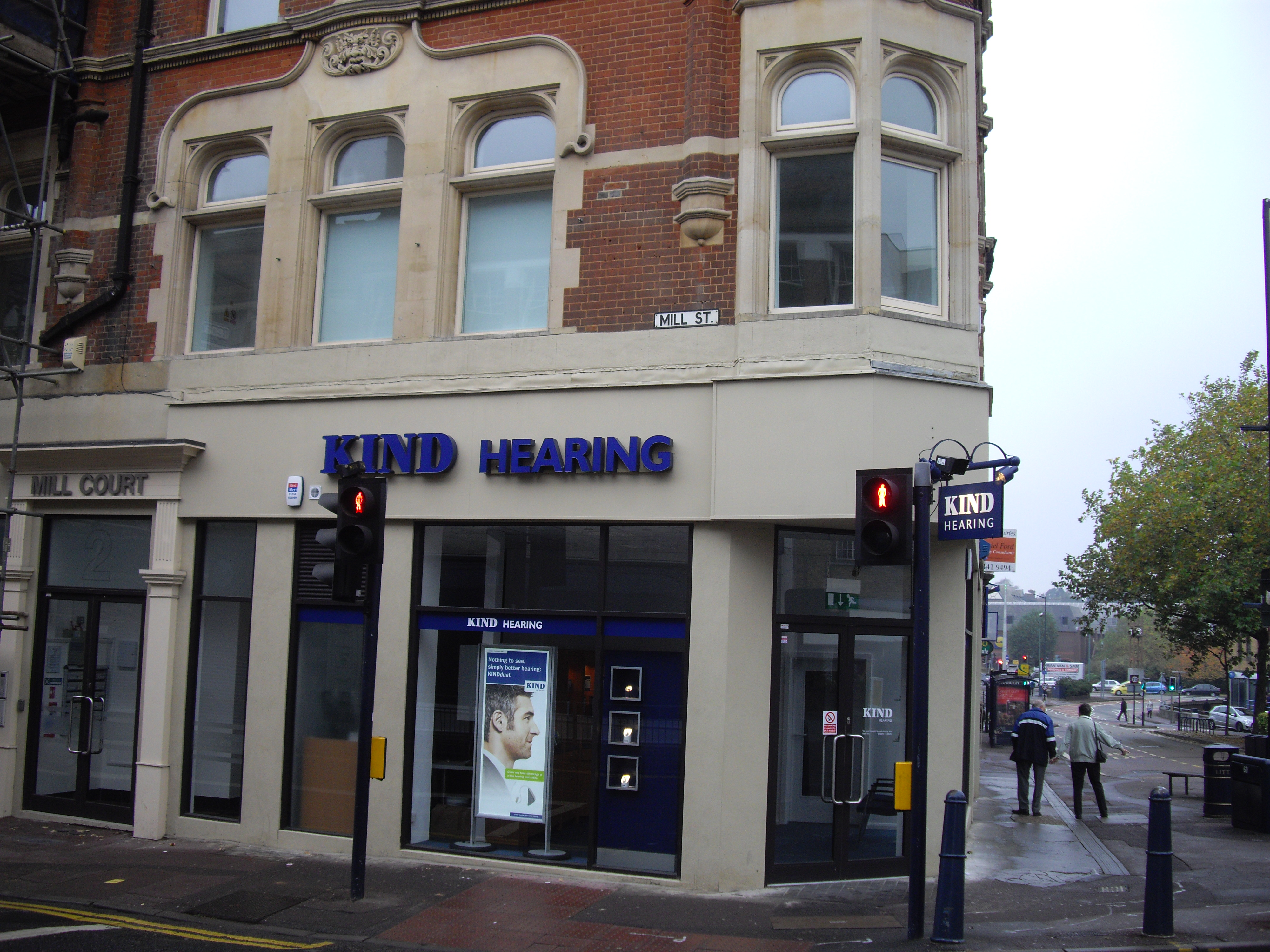 Kind Hearing on junction of Mill Street and High Street Maidstone